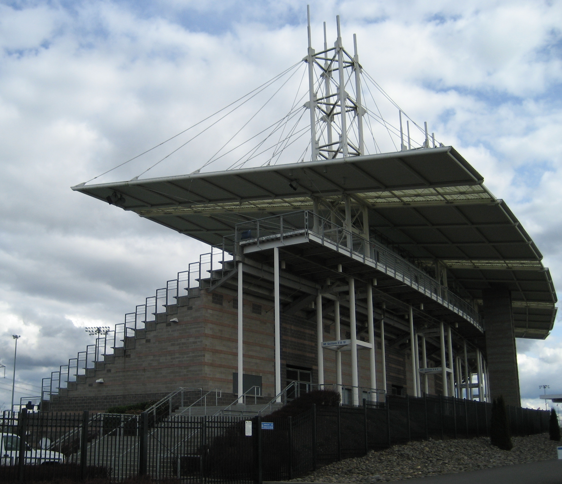 Hillsboro Stadium in Hillsboro, Oregon